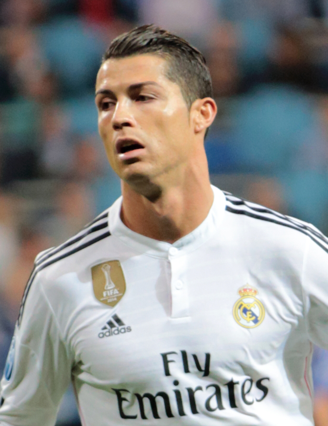 UEFA Champions league game, Real Madrid vs. FC Schalke at Estadio Santiago Bernabeu. Real Madrid lost 3-4 but advanced on a 5-4 aggregate.